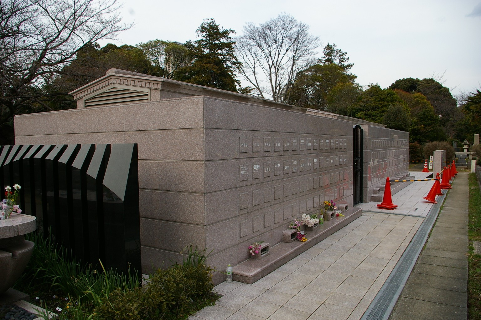 taken by me